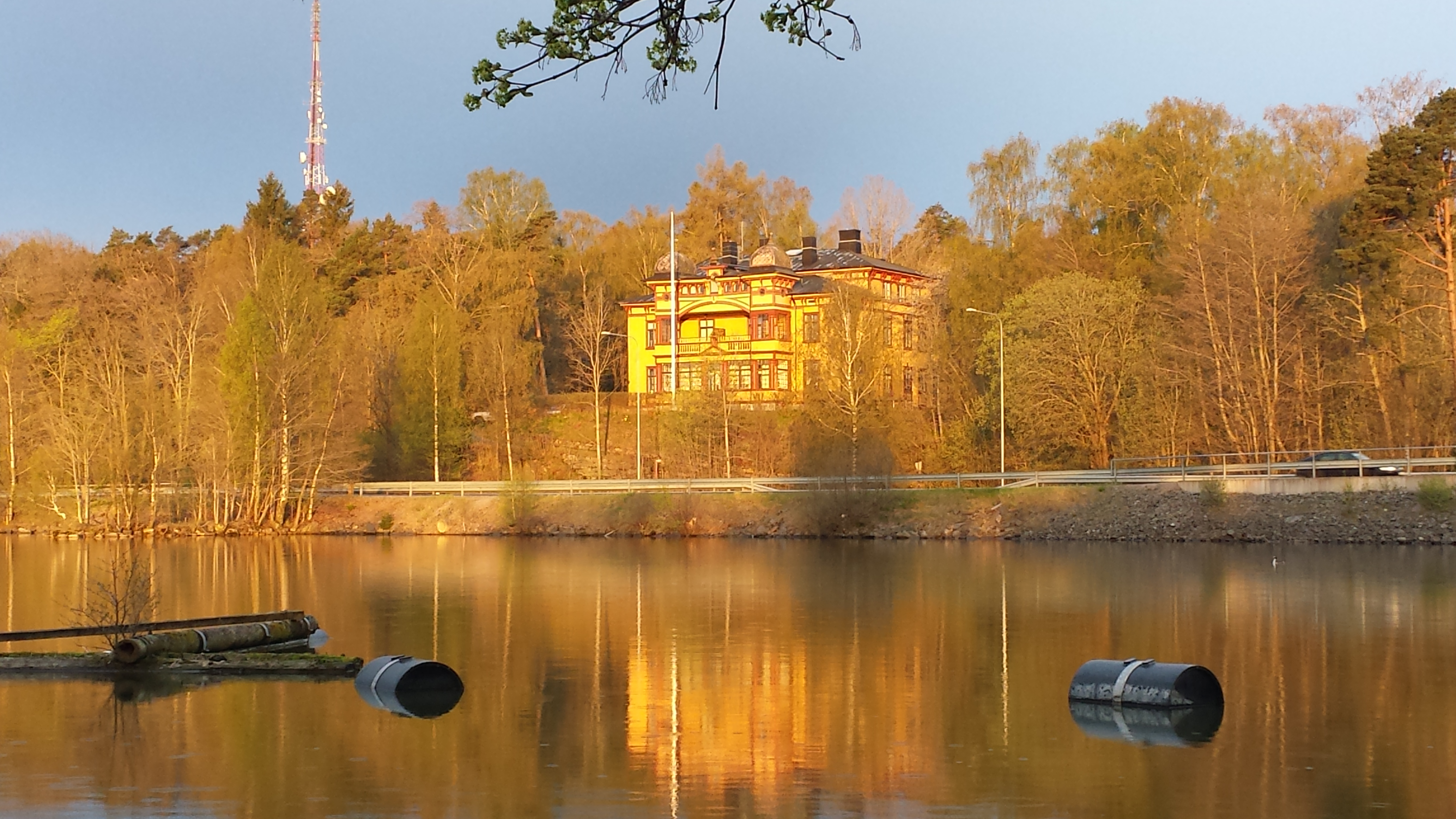 Villa Strömsvik in Trollhättan Sweden